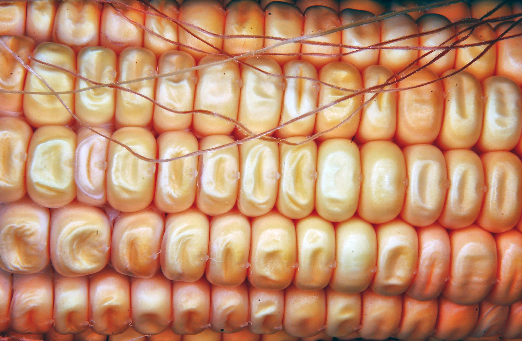 Raw Sweet corn